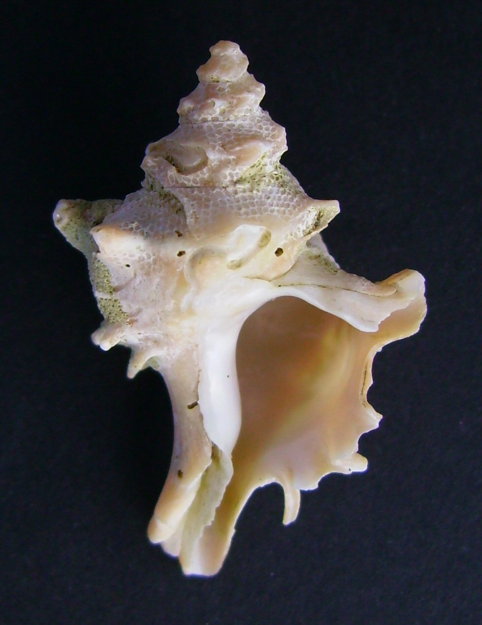 Poirieria zelandica from Pakiri, New Zealand, illustrating the anterior canal still visible from the previous growth stage. This work has been released into the public domain by its author, Graham Bould. This applies worldwide.In some countries this may not be legally possible; if so:Graham Bould grants anyone the right to use this work for any purpose, without any conditions, unless such conditions are required by law.